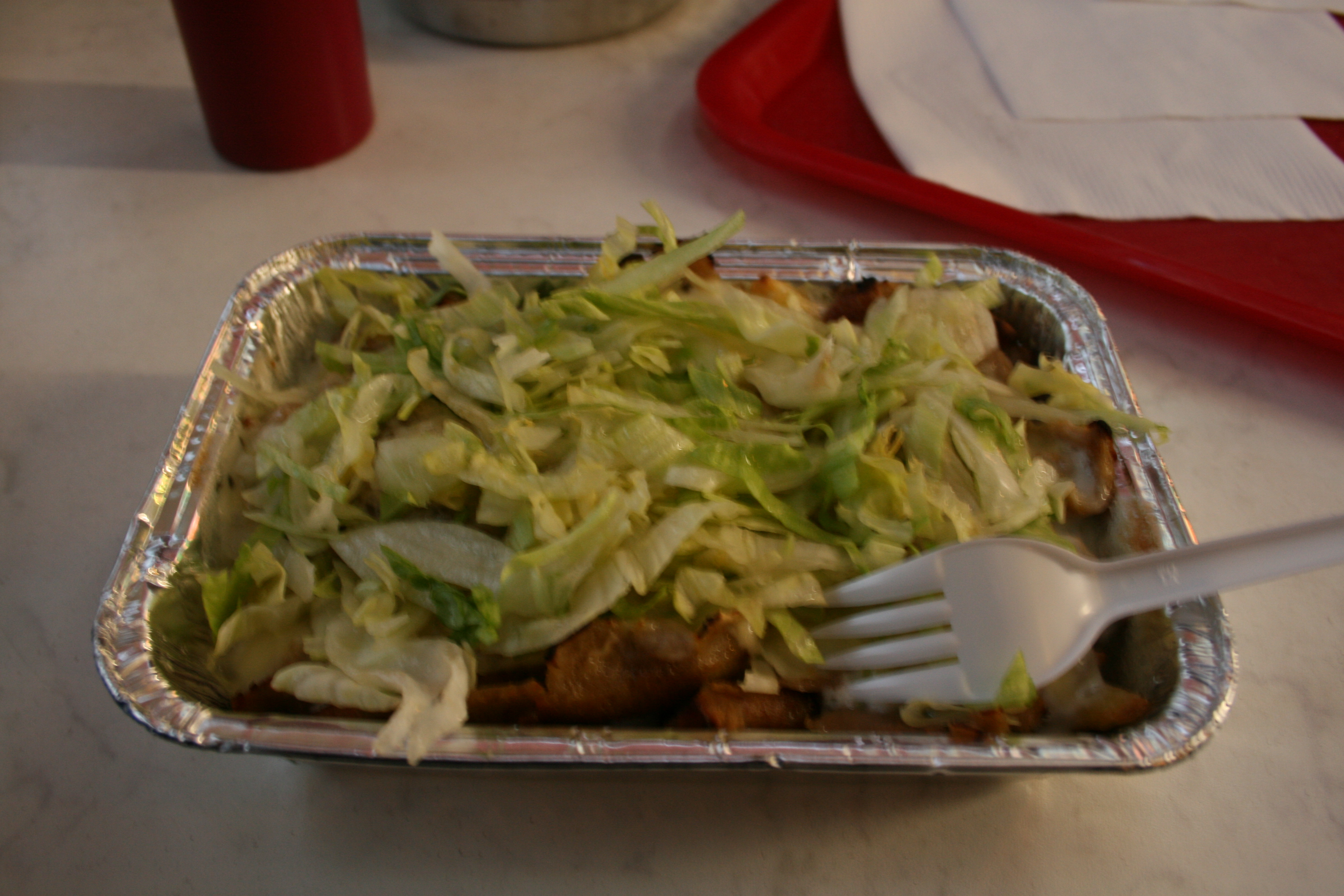 Kapsalon in Rotterdam